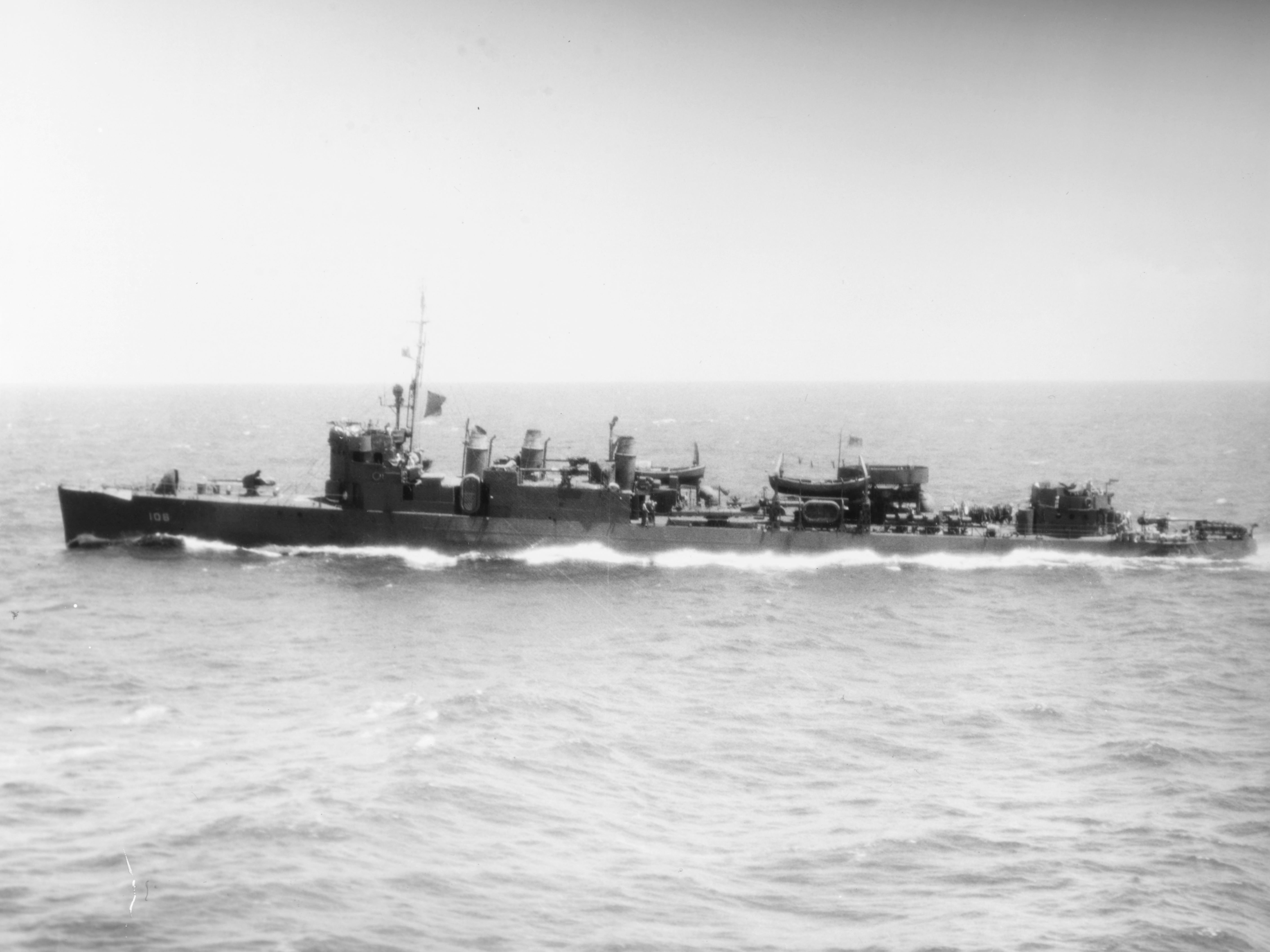 The U.S. Navy destroyer USS Chew (DD-106) underway at sea in the eastern Pacific area, 2 August 1945. Note the late World War II configuration of this old destroyer: the aftermost of her original four smokestacks was removed, with the remaining three shortened; retention of midships torpedo tubes and original four 4/50 guns, with one gun still mounted on her main deck aft; and K-Gun depth charge throwers in place of her after torpedo tubes. Chew's paint scheme is somewhat reminiscent of the 1941 vintage Camouflage Measure 1, with dark paint except on her smokestack tops and (apparently) her upper upper foremast.